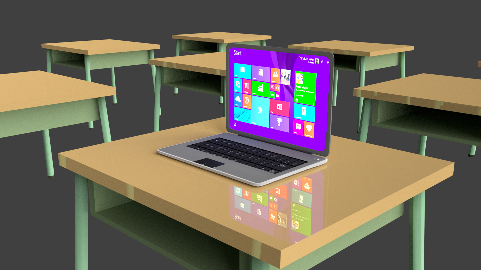 Test Render for Windows 8 and some desks on blender 3d